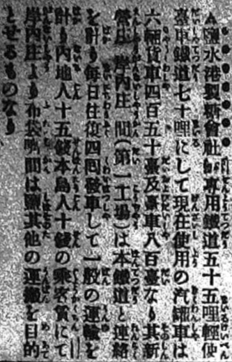 The column about Railway from Nichinichi Simpo (Newspapter), Taiwan